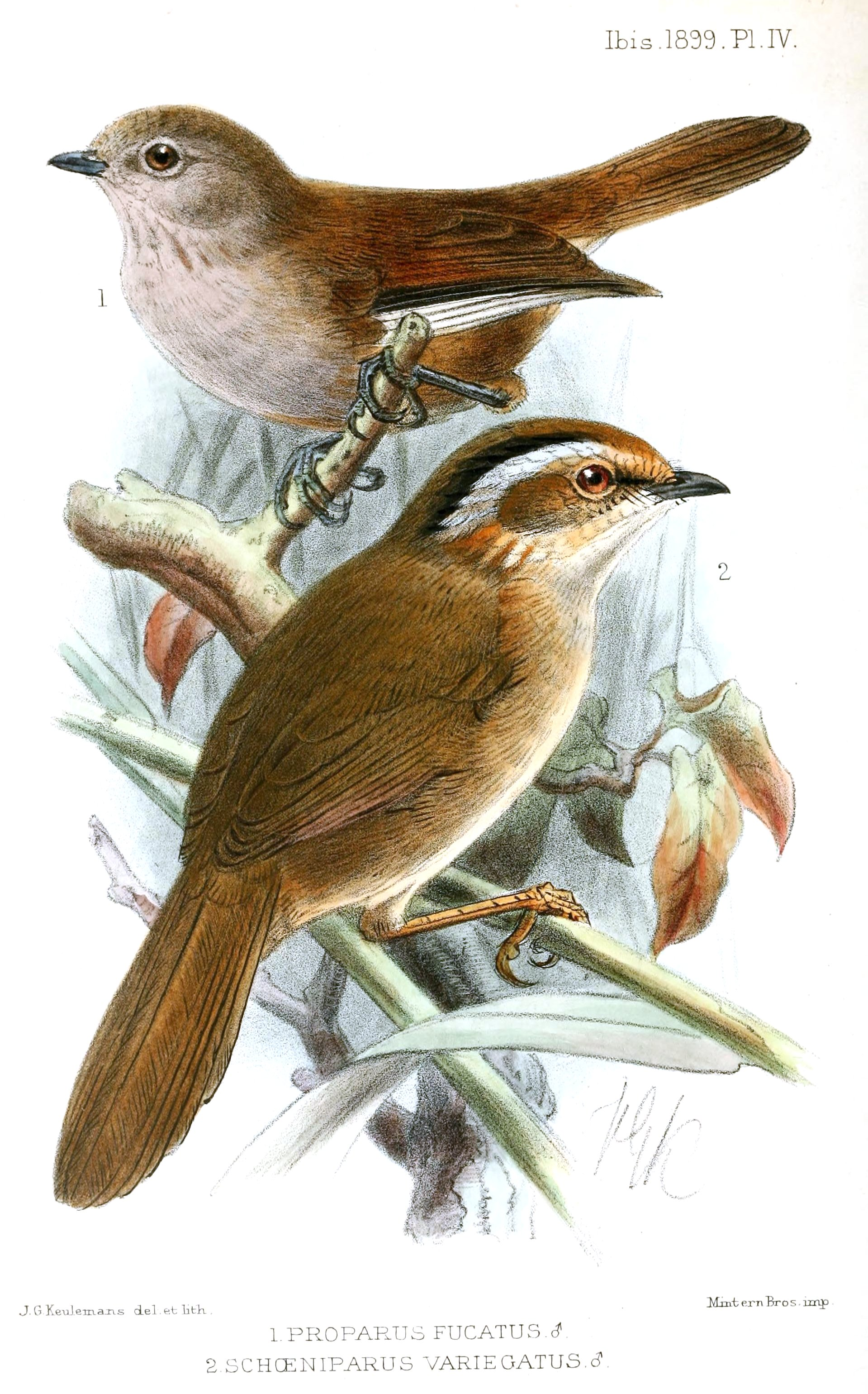 Proparus fucatus and Schoeniparus variegatus